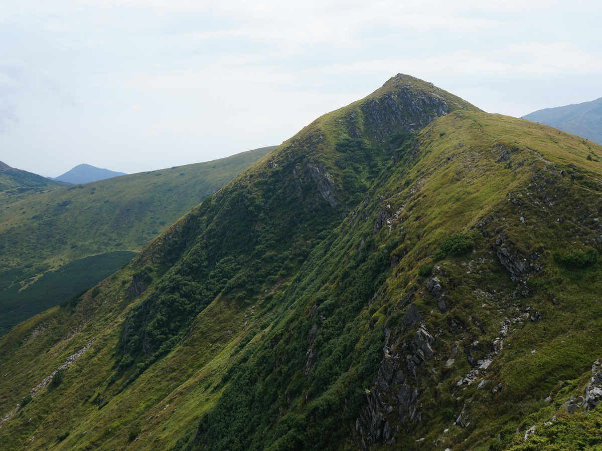 Dzembronia peak (1877 m) AlongCarpathian Expedition 27.07-27.08.2013